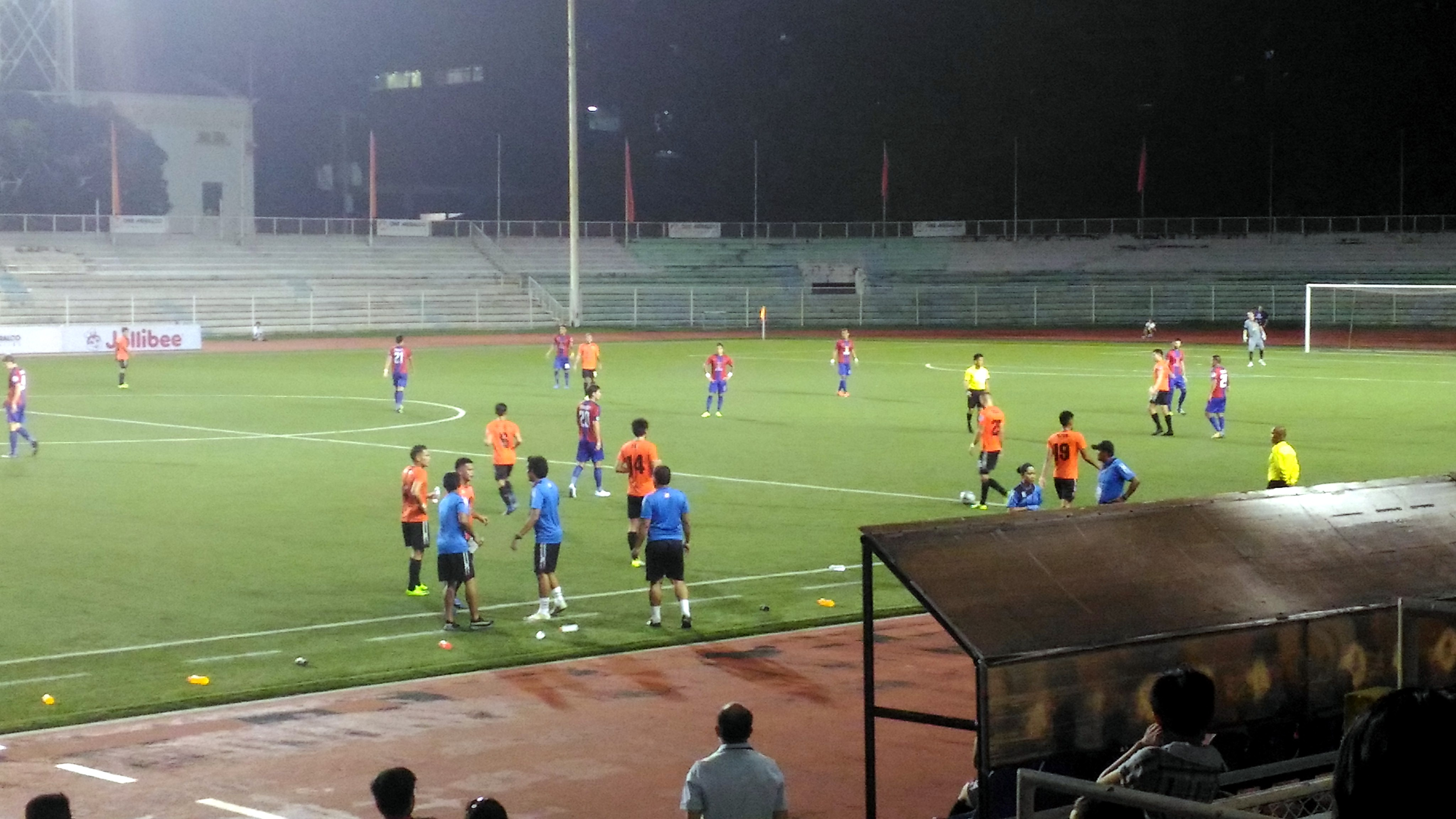 A picture of the First Half action of the Saturday, September 23, 2017 Philippine Football League (PFL) match between the Davao Aguilas FC (DAFC) and FC Meralco Manila (FCMM) at the Rizal Memorial Stadium.